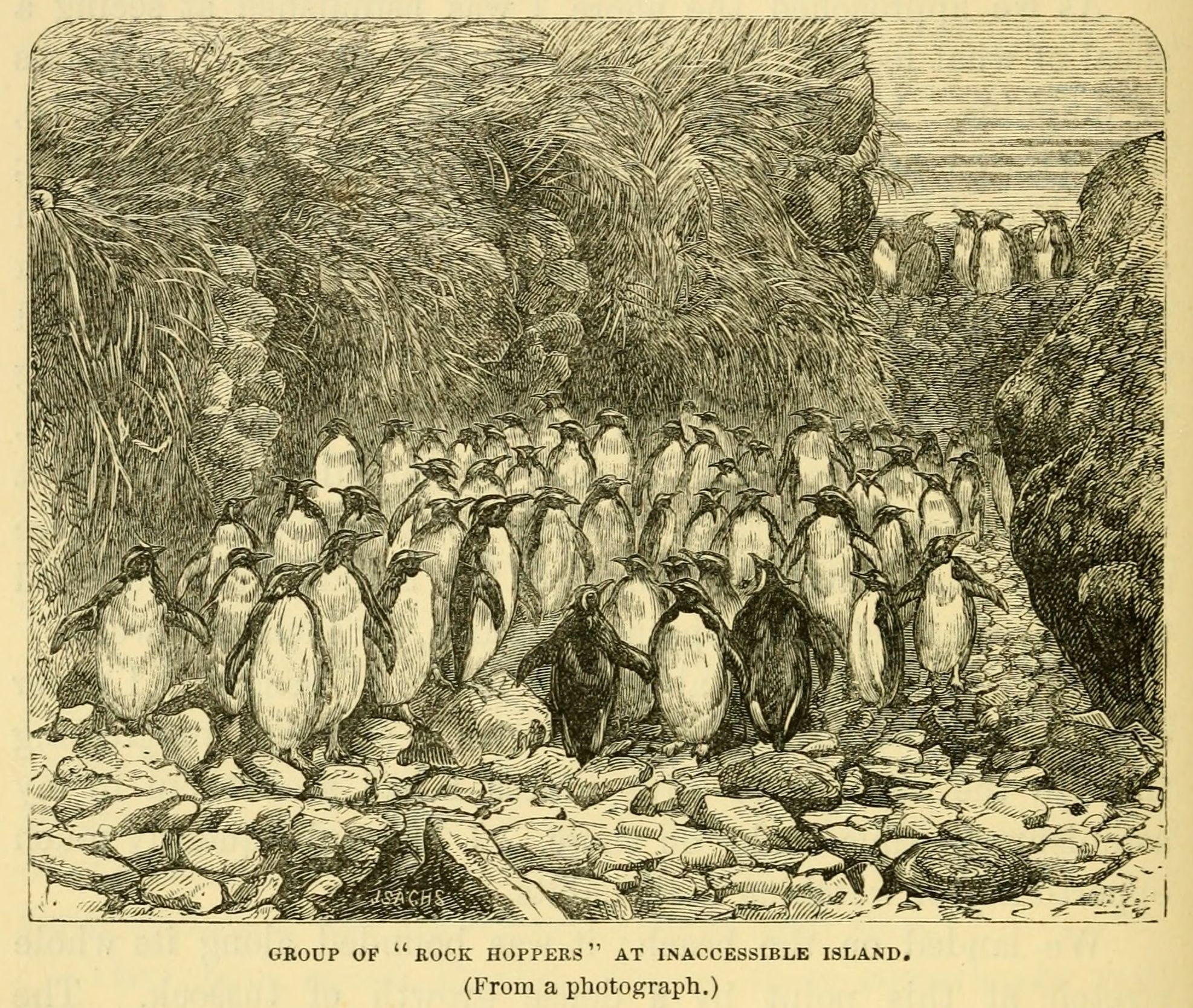 Group of "Rock Hoppers" (penguins) at Inaccessible Island. An engraved illustration after a photograph